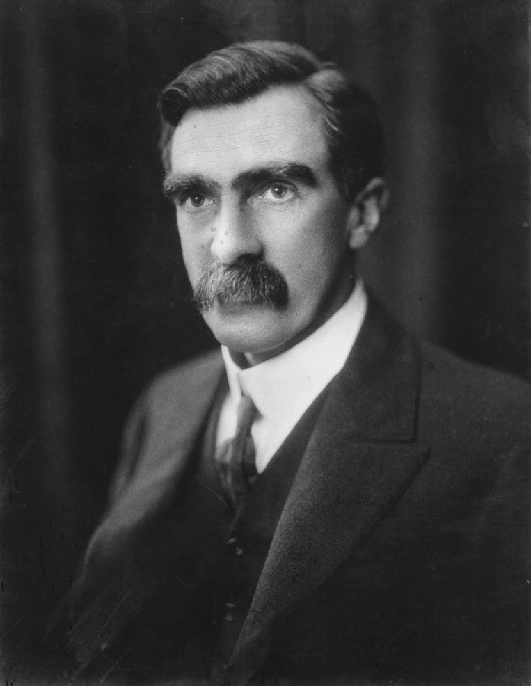 Portrait of Kerr Grant.